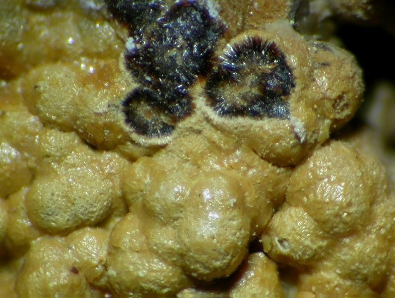 Atencioite Locality: Linópolis, Divino das Laranjeiras, Doce valley, Minas Gerais, Southeast Region, Brazil (Locality at ) Field of view 3 mm. Specimen and photo Leon Hupperichs.